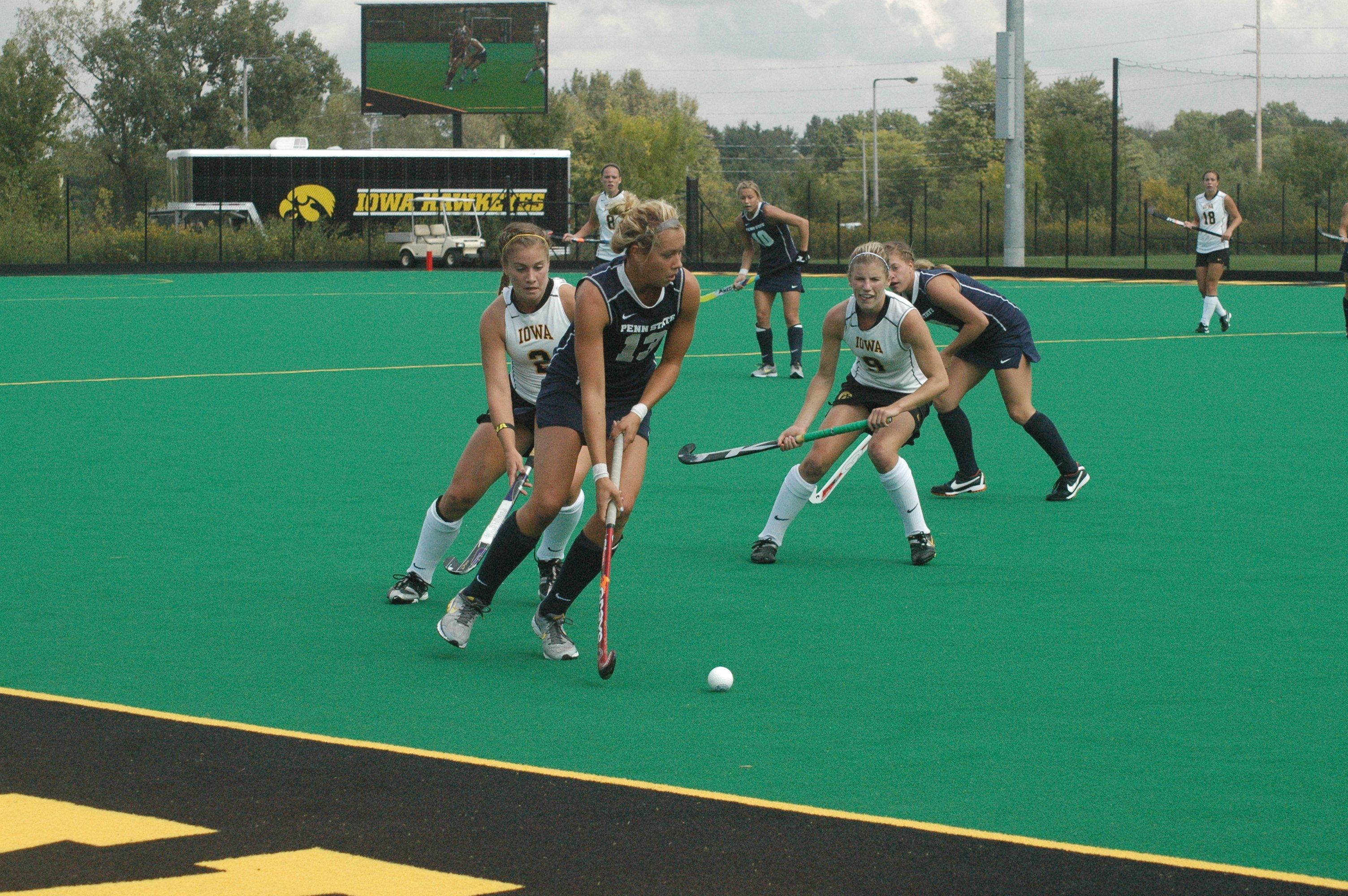 The Penn State Nittany Lions vs. the Iowa Hawkeyes during a Big Ten field hockey game in Iowa City, Iowa.